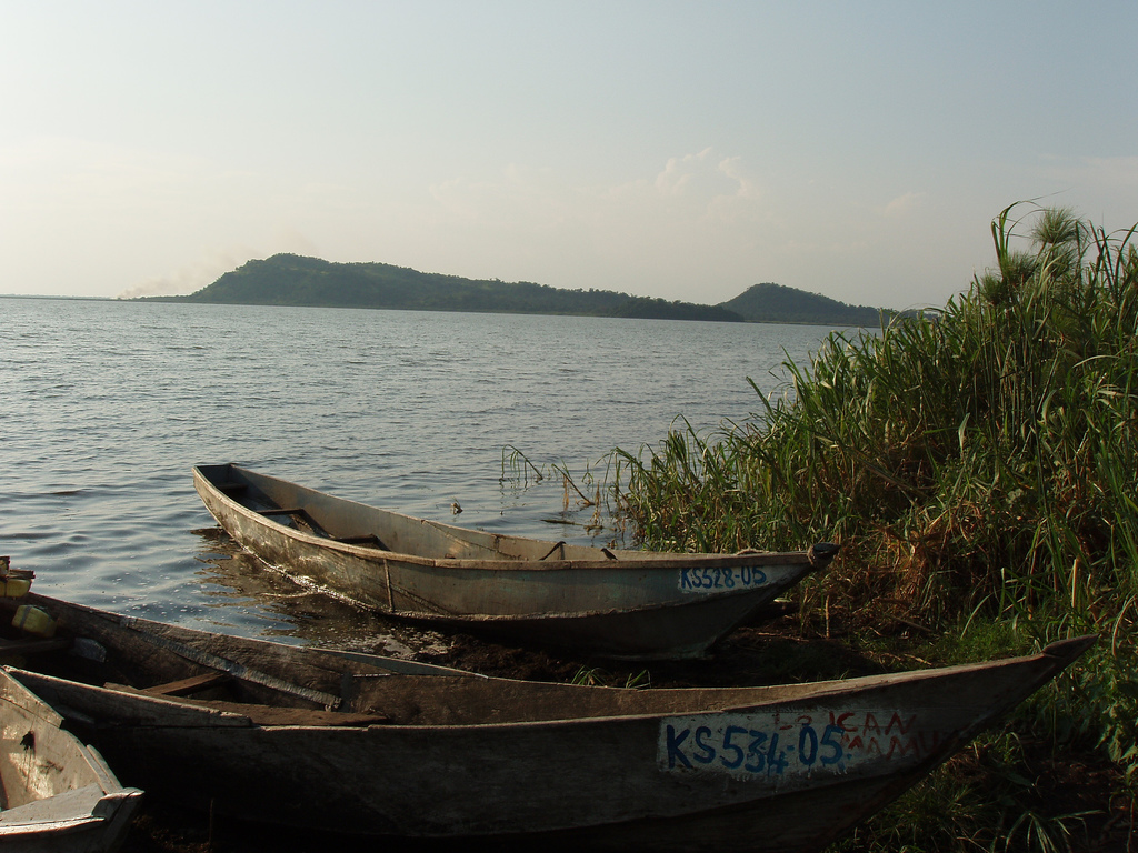 Fishing boats on Lake Kyoga, Uganda